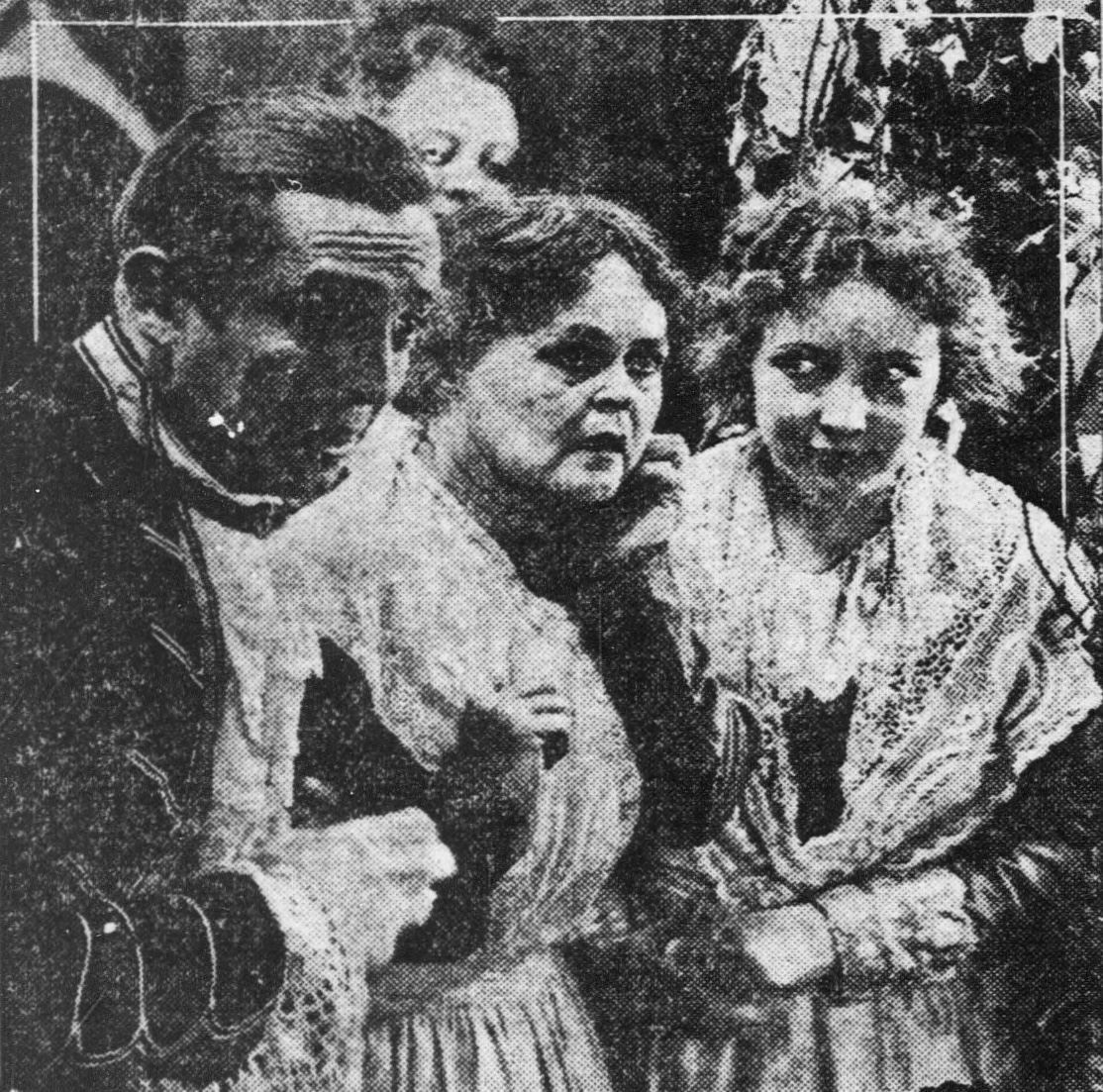 Scene from Wee Lady Betty (1917) from a newspaper